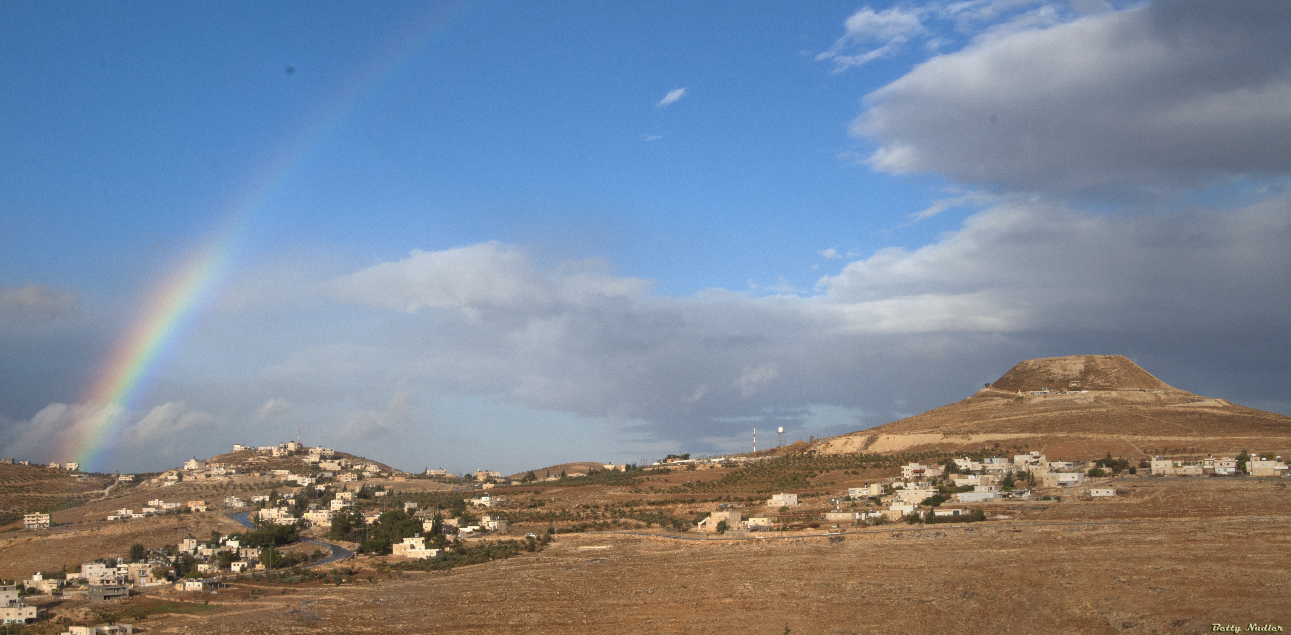 at least the rain is finally here! Tekoa